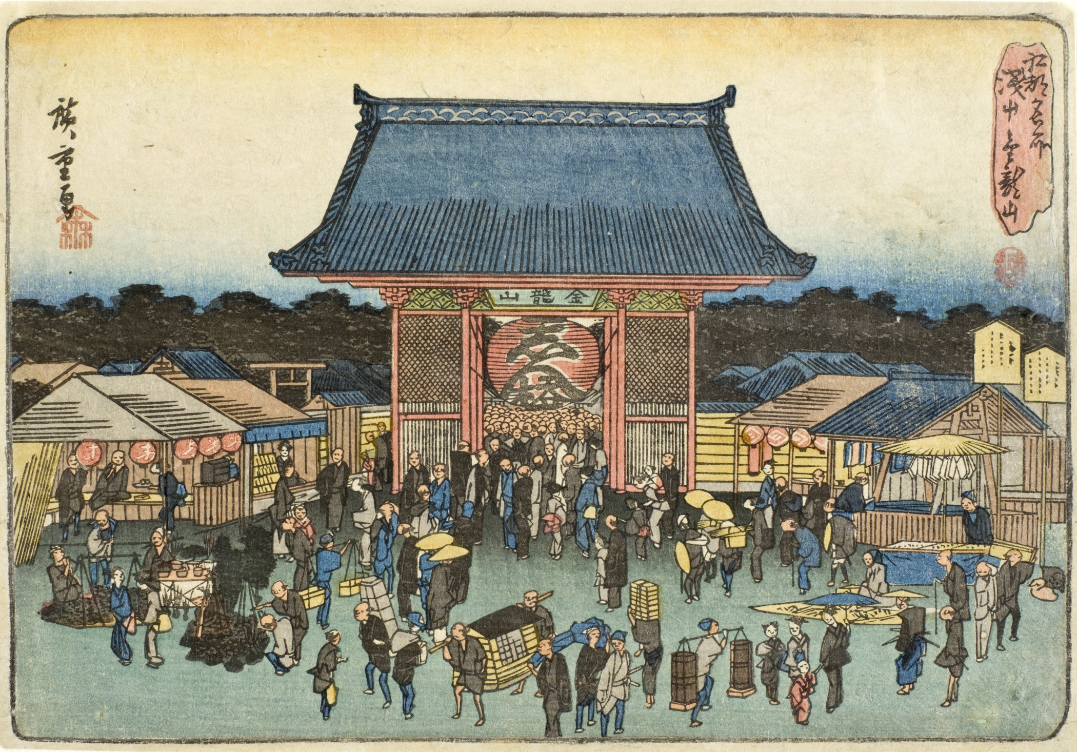 Japan, 1853, 10th month Series: Pictures of Famous Places in the Sixty-odd Provinces Prints; woodcuts Color woodblock print Image: 13 1/2 x 9 1/16 in. (34.29 x 23.02 cm); Sheet: 14 3/8 x 9 1/2 in. (36.51 x 24.13 cm) Gift of Chuck Bowdlear, Ph.D., and John Borozan, M.A. (M.2003.67.24) Japanese Art